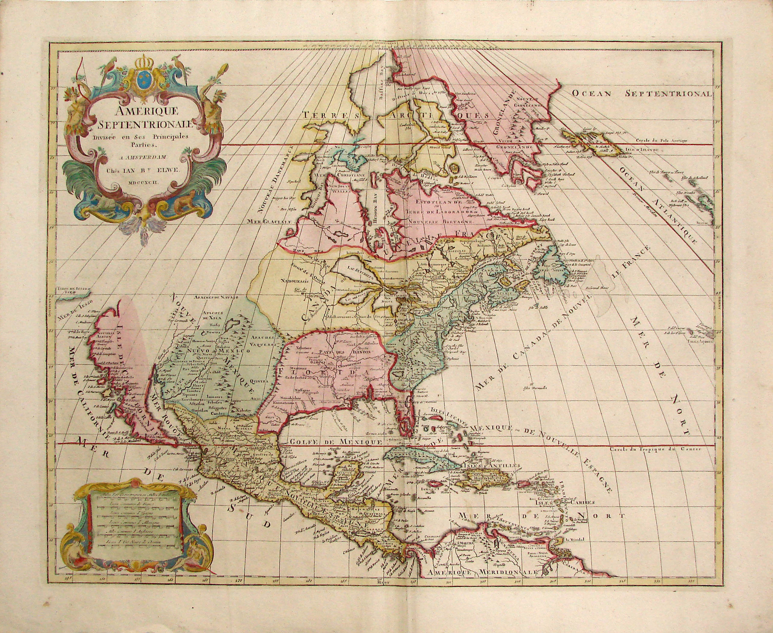 Jaillot-Elwe, Amerique Septentrionale, Ámsterdam, 1792 Jan Barent Elwe's re-issue of the Jaillot copperplate, with updates to California and the Great Lakes, in full original color